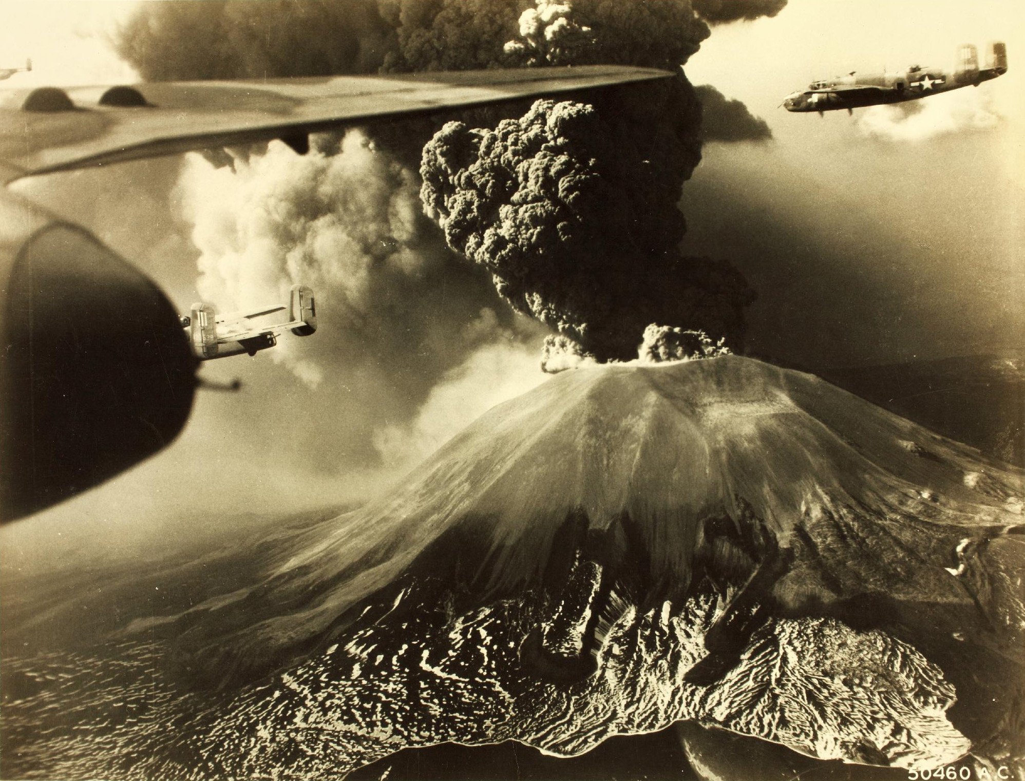 North American B-25 Mitchell bomber, flying near Mount Vesuvius during its last eruption in March 1944